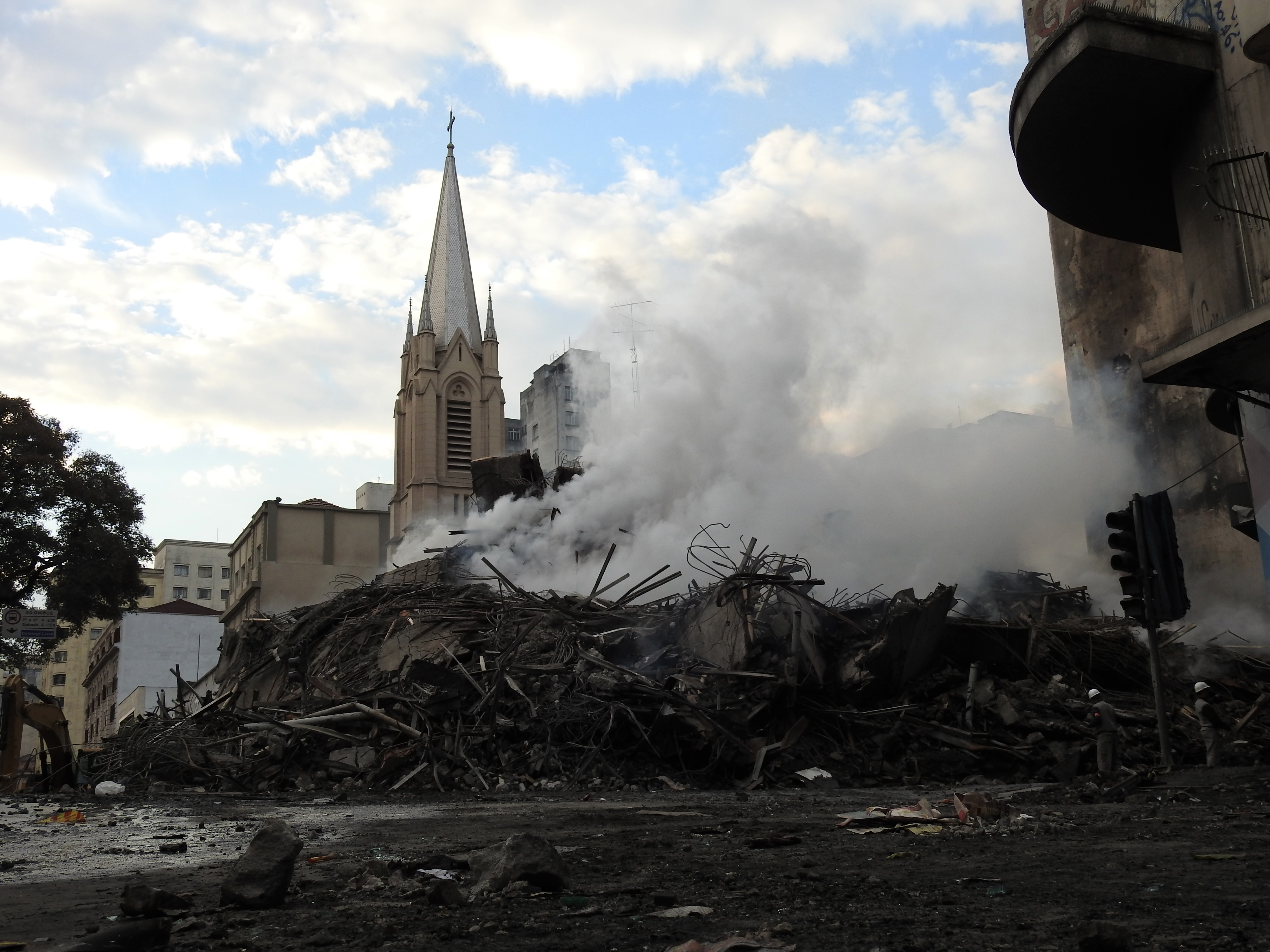 The Wilton Paes de Almeida Building (Portuguese: Edifício Wilton Paes de Almeida) was a high-rise building in Largo do Paiçandu, São Paulo, Brazil, that was built in the 1960s. It caught fire and collapsed on 1 May 2018. The fire started on the fifth floor at 4.20am GMT (1.20am local time) on 1 May 2018, and the building collapsed 90 minutes later. The cause of the fire is thought to be a gas explosion. The fire spread to an adjacent building, which was not in danger of collapsing.